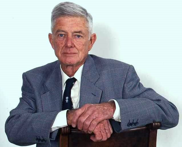 portrait of The 11th Duke of Atholl